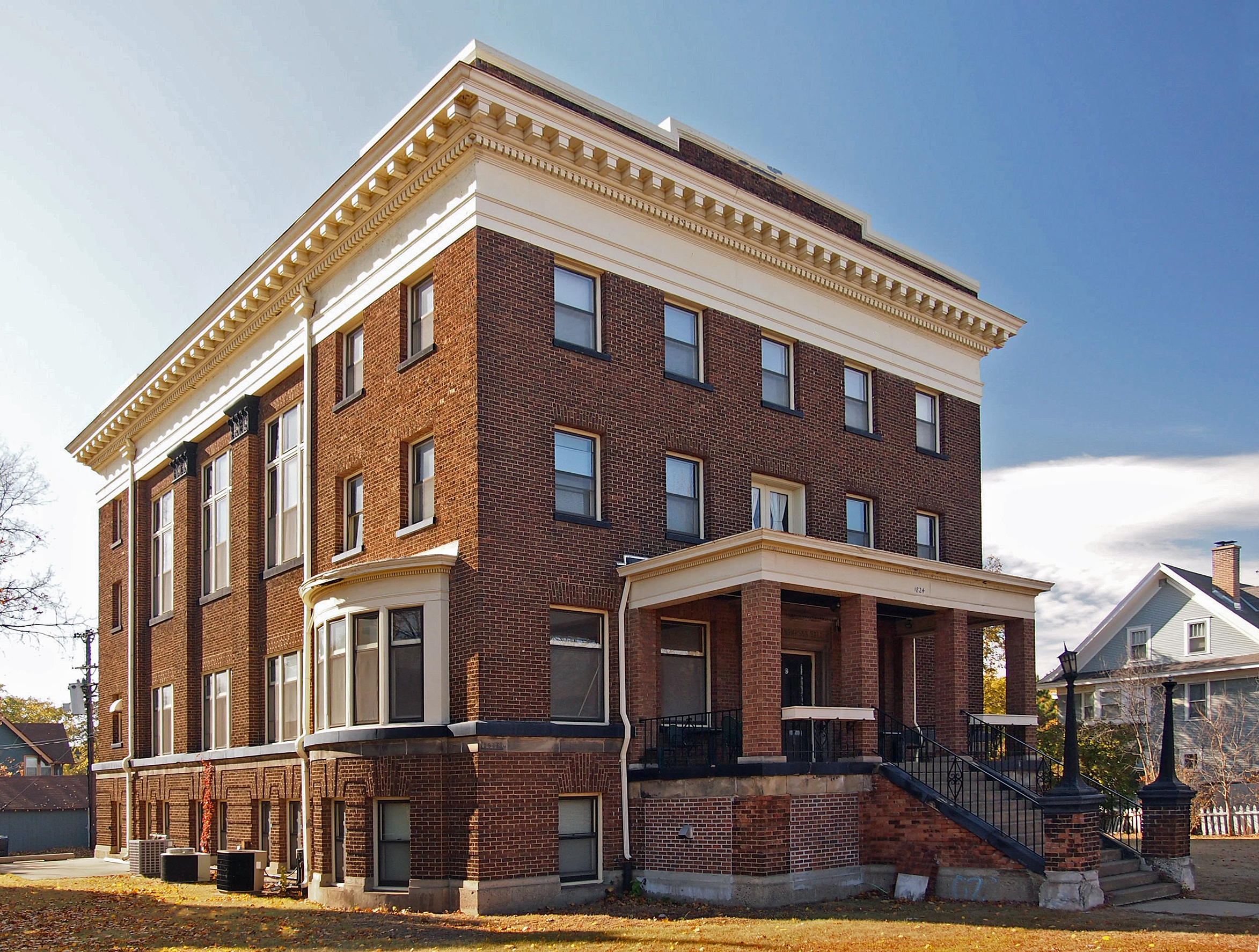 Charles Thompson Hall, St Paul, Minnesota, USA. Built as a community hall for the deaf and hard of hearing.